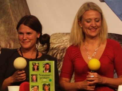 Swedish TV and radio comedians Mia Skäringer and Klara Zimmergren at the Gothenburg bookfair 2008